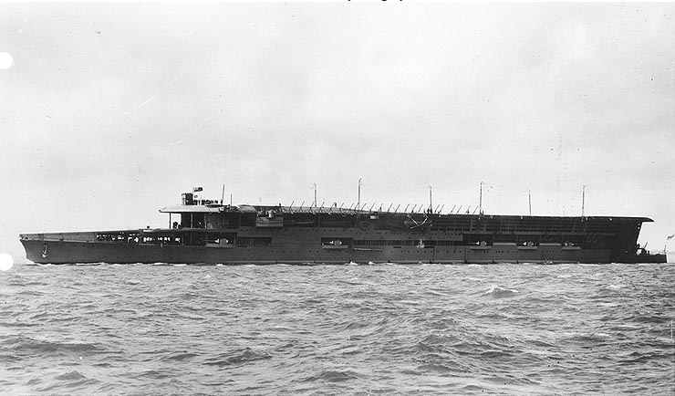 HMS Furious (British Aircraft Carrier, 1917-1948) Photographed after reconstruction, circa 1925. U.S. Naval Historical Center Photograph.